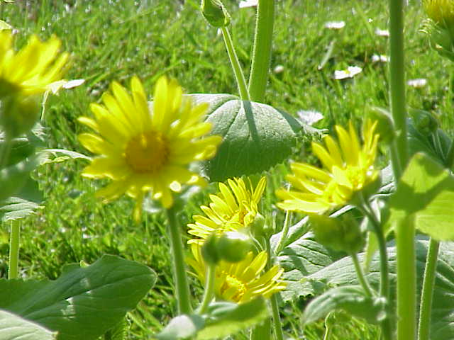 Species: Doronicum pardalianche Family: Asteraceae Image No. 2